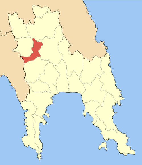 Locator map of Sparta municipality (Δήμος Σπάρτης) in Lakonia prefecture (Νομός Λακωνίας) in Greece.